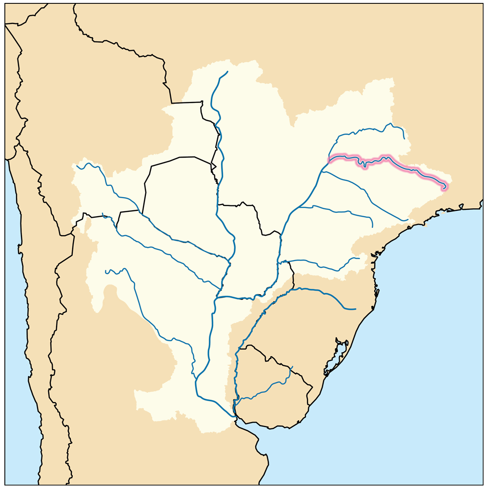 This is a map showing the Grande River highlighted within the Paraná River drainage basin.